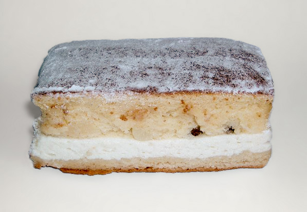 "Eierschecke", egg-custard cake at the bakery Voigt in Chemnitz, Germany